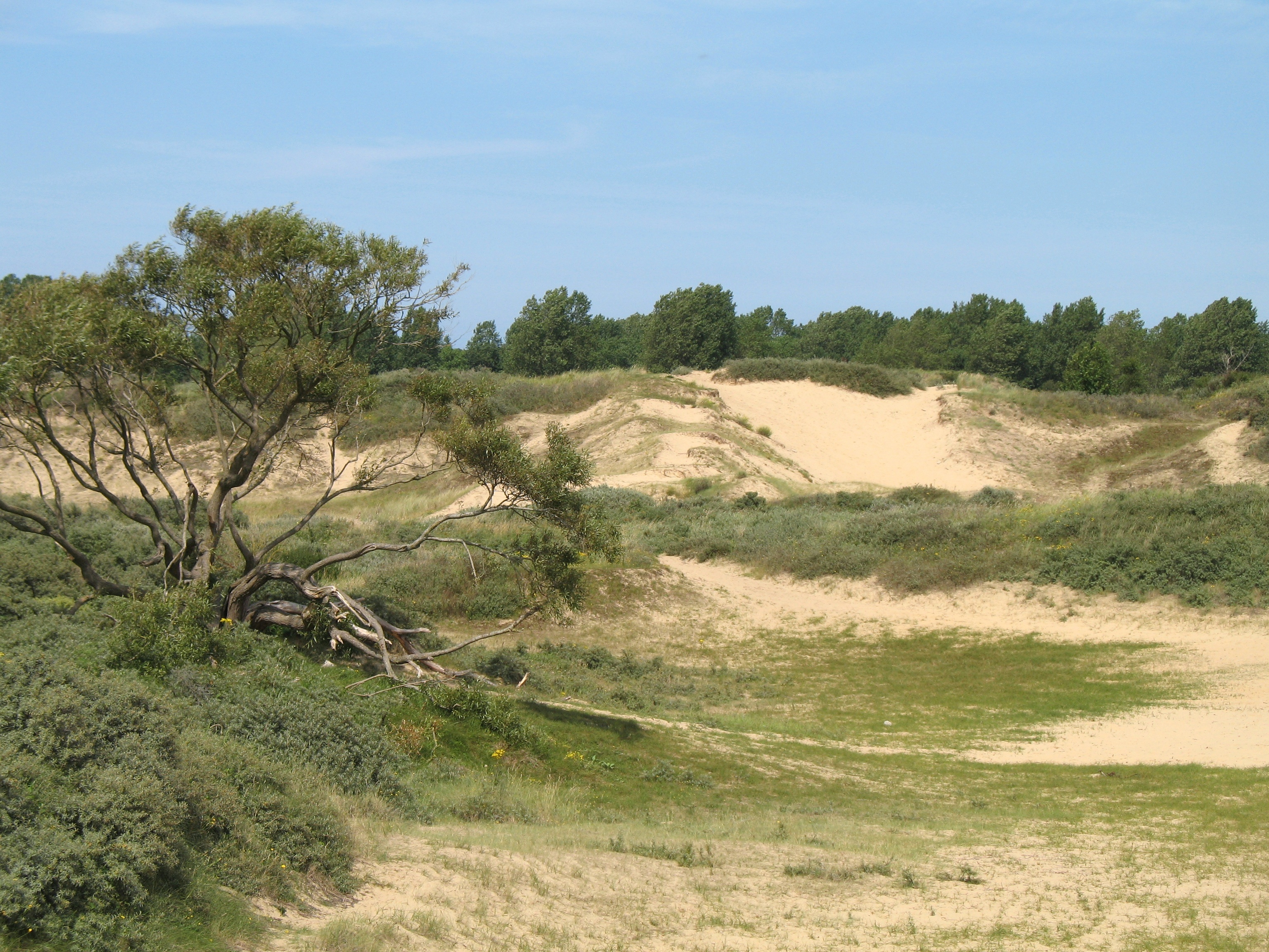 Koksijde (Province of West Flanders, Belgium): nature reserve of the Doornpanne